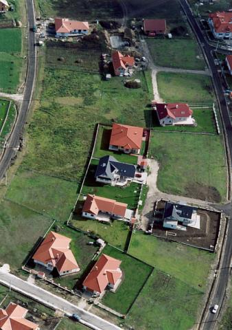 Herceghalom, Hungary, aerialphotography